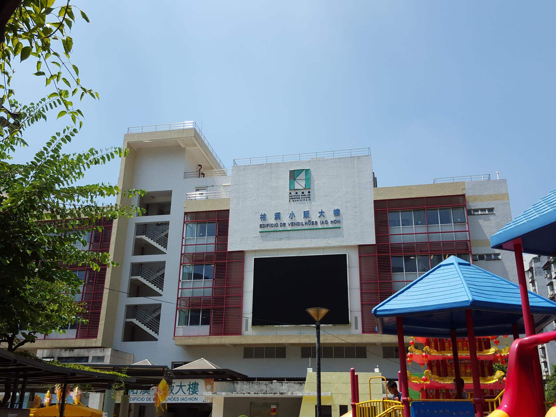 Iao Hon Hawker Building